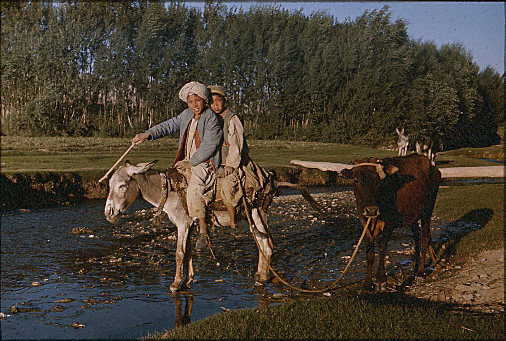 Boys on donkey, Afghanistan, 1976